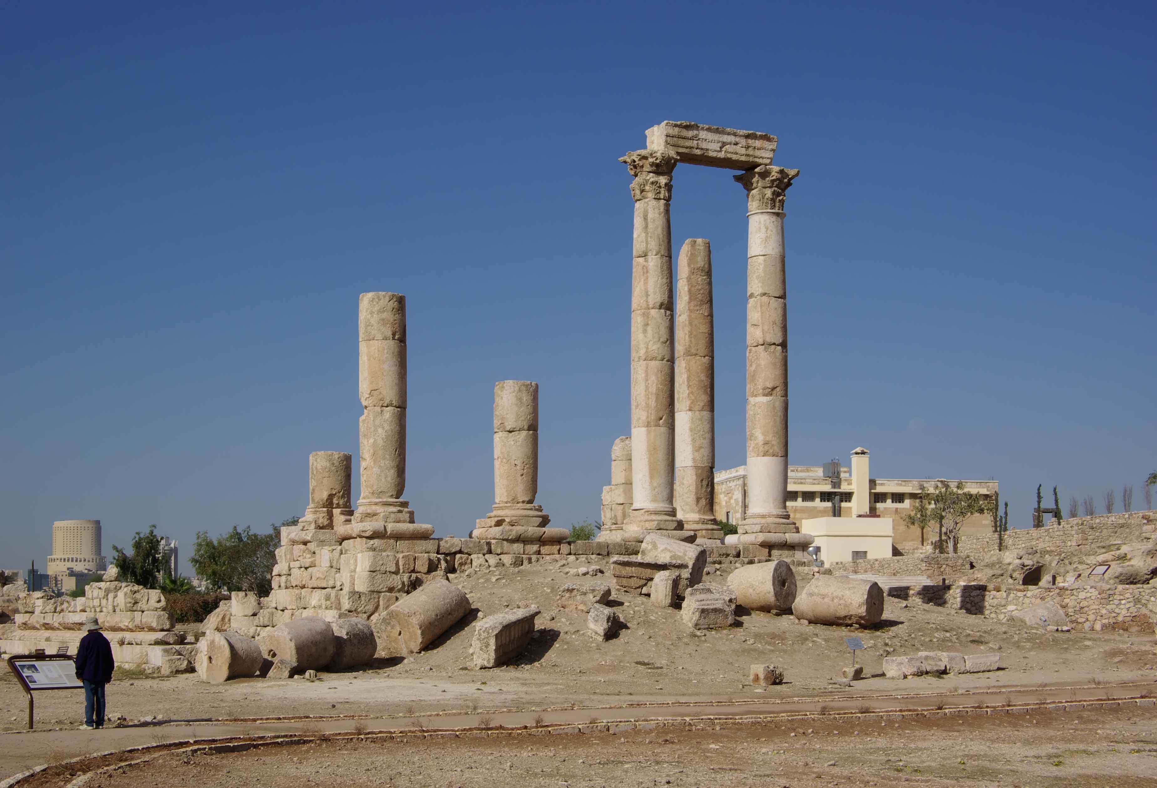 Jordan, Amman, Ruins of the temple of Hercules.